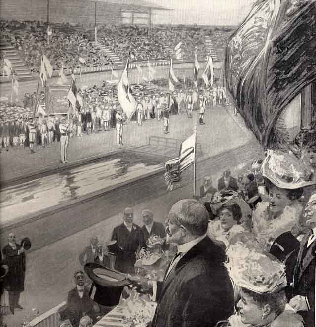 The beginning of the fourth modern Olympiad, the King opening the Olympic games